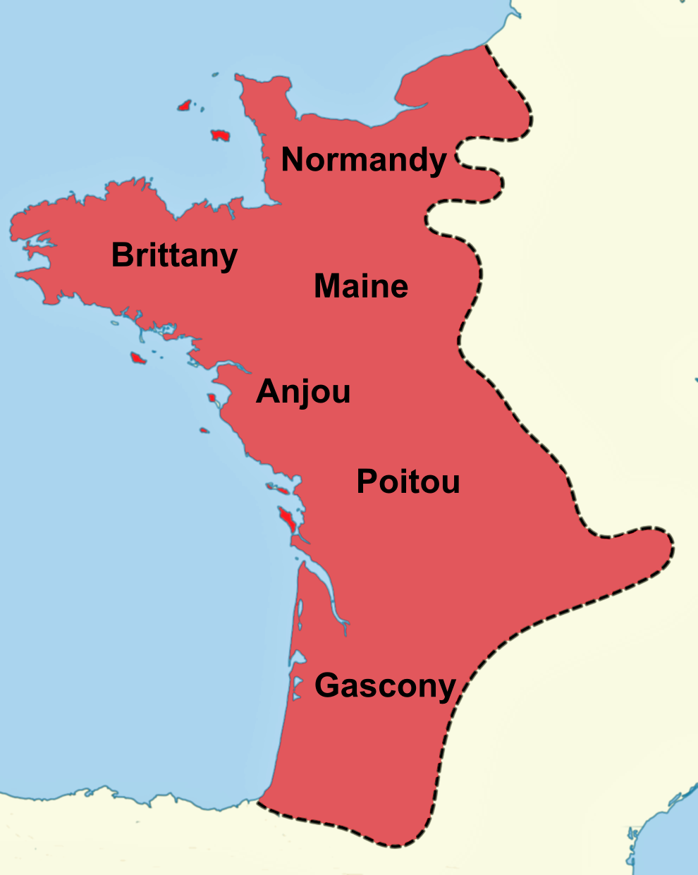 Angevin empire in France c. 1200 (simplified); data adapted from Richard Huscroft, Ruling England, Map 4; in turn, after Gillingham, Angevin Empire, p.32.